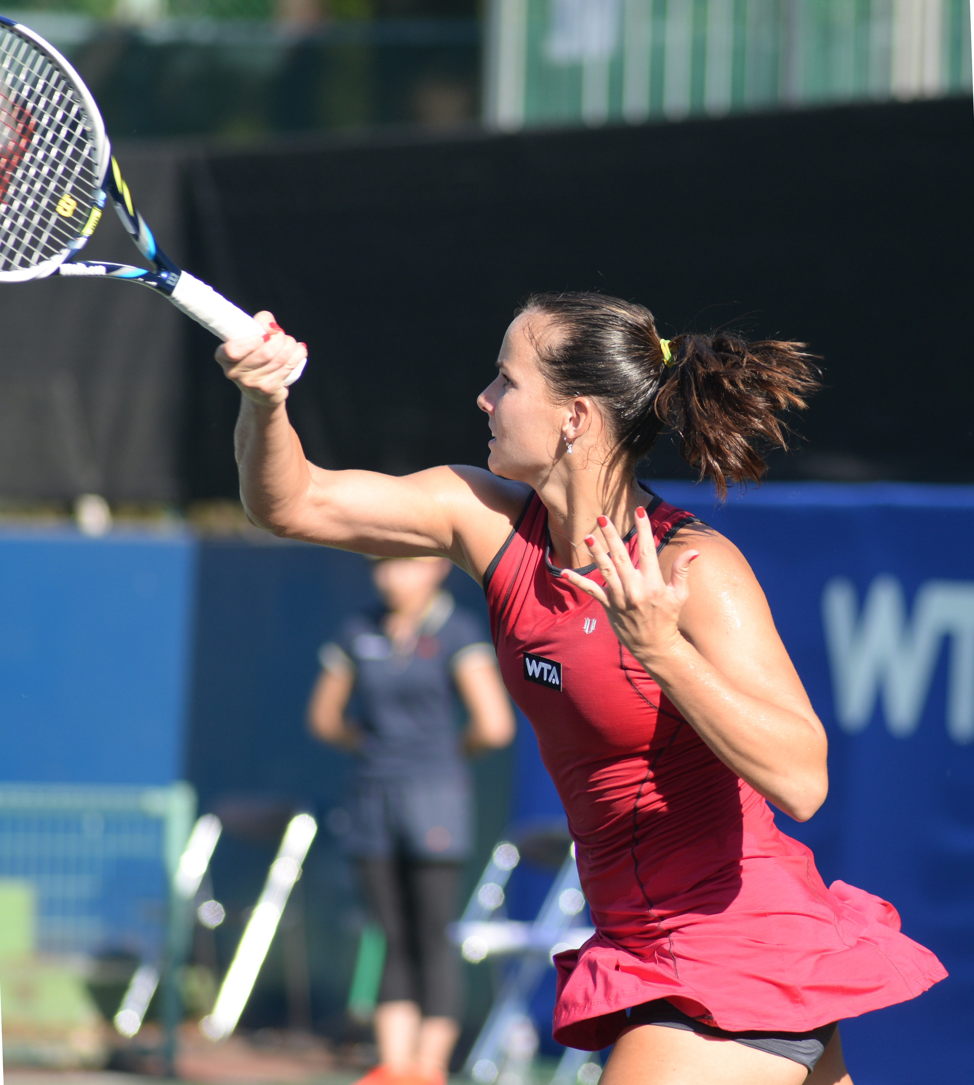 Jarmila Gajdošová at the 2014 Toray Pan Pacific Open